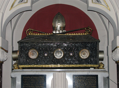 Reliquary, Chapel of the Martyrs of Nepi in Katowice Panewniki